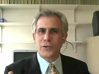 Image source is a screen shot image hosted on the BloggingHeads.tv site of a video podcast. Site specifically allows for image reuse.